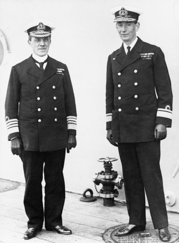 Photograph of Admiral Sir Frederick Charles Doveton Sturdee and Rear Admiral Sir Roger Keyes together onboard.